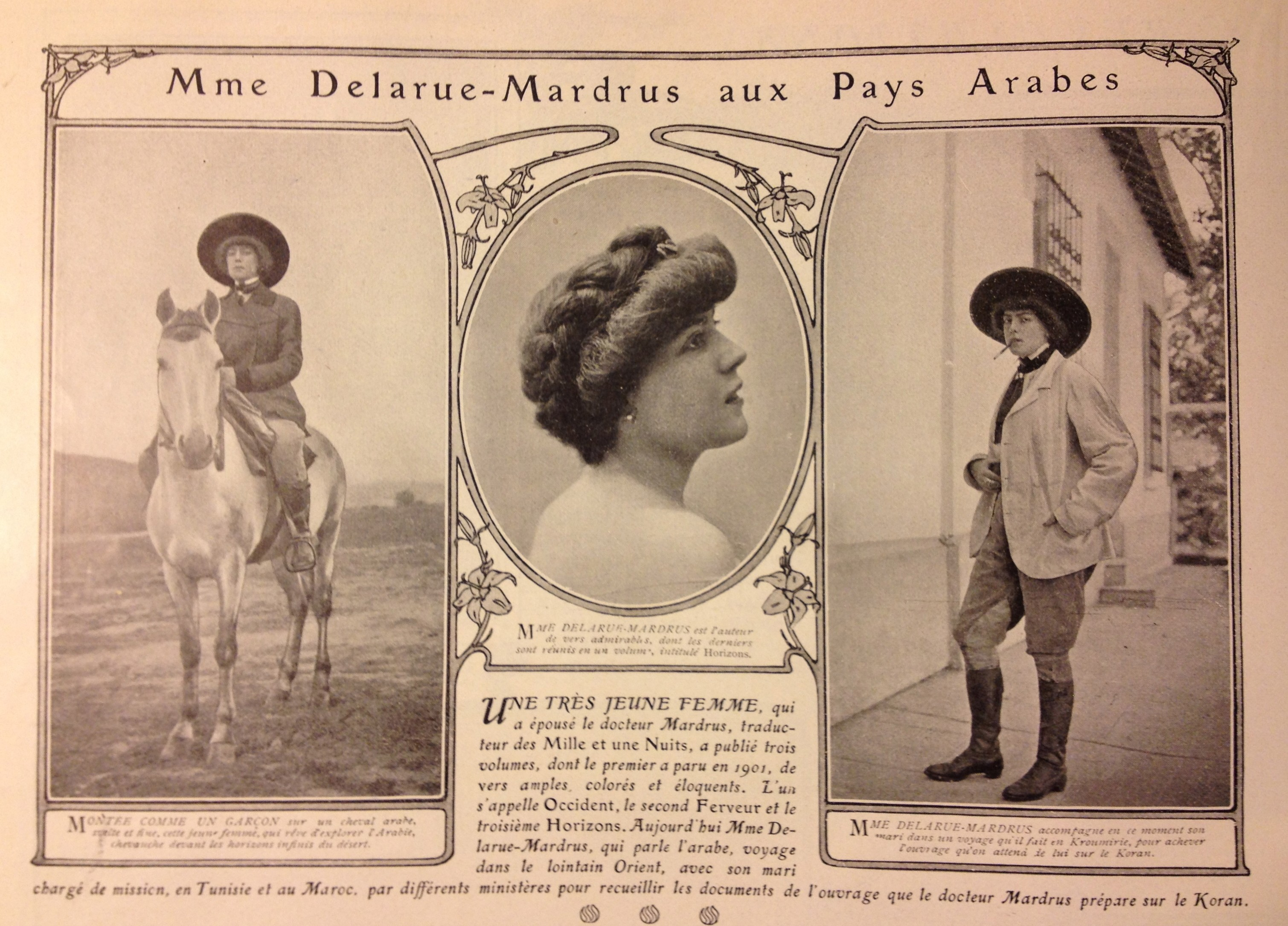 September, 1905 issue of La Vie Heureuse (Courtesy of Rachel Mesch, Oh so many ways to be modern)